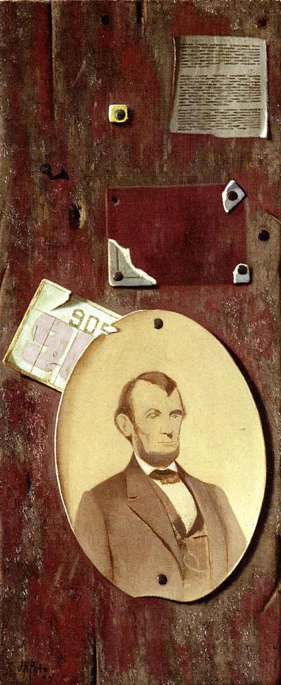 Portrait of Lincoln